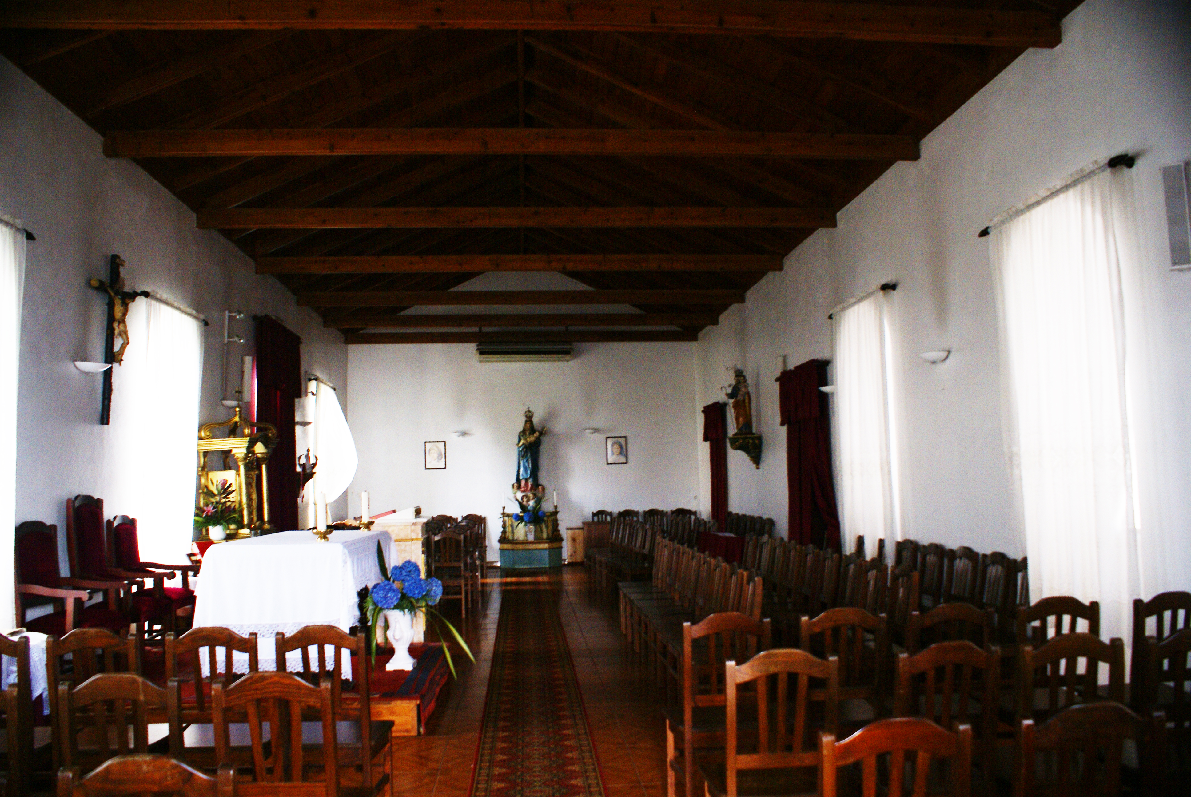 Império do Divino Espírito Santo do Salão,interior, Salão, concelho da Horta, ilha do Faial, Açores, Portugal